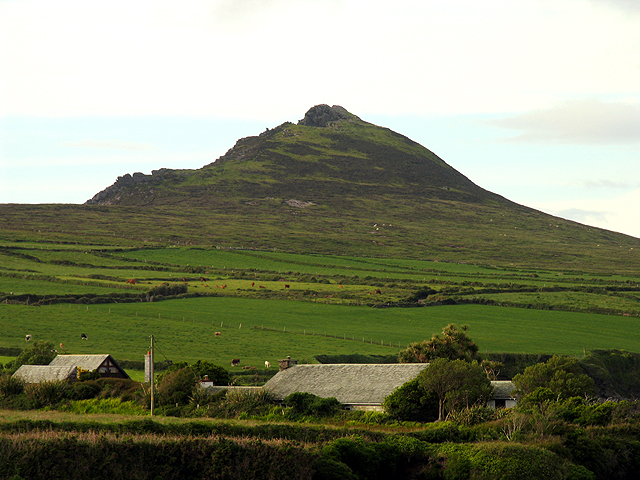 Binn Diarmada: One of the Three Sisters. There are three peaks along the coast. This one is the furthermost west and is the highest of the three, at 153 metres. This picture was taken on gpr Q349090733, on a bearing of 25 degrees using the zoom.